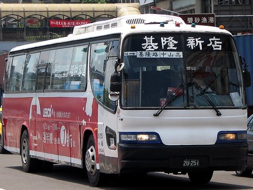 Fu-he Bus Co., Ltd. (Taiwan) operated a freeway line "Keelung - Xindian" with Daewoo BH117H bus body.[1]